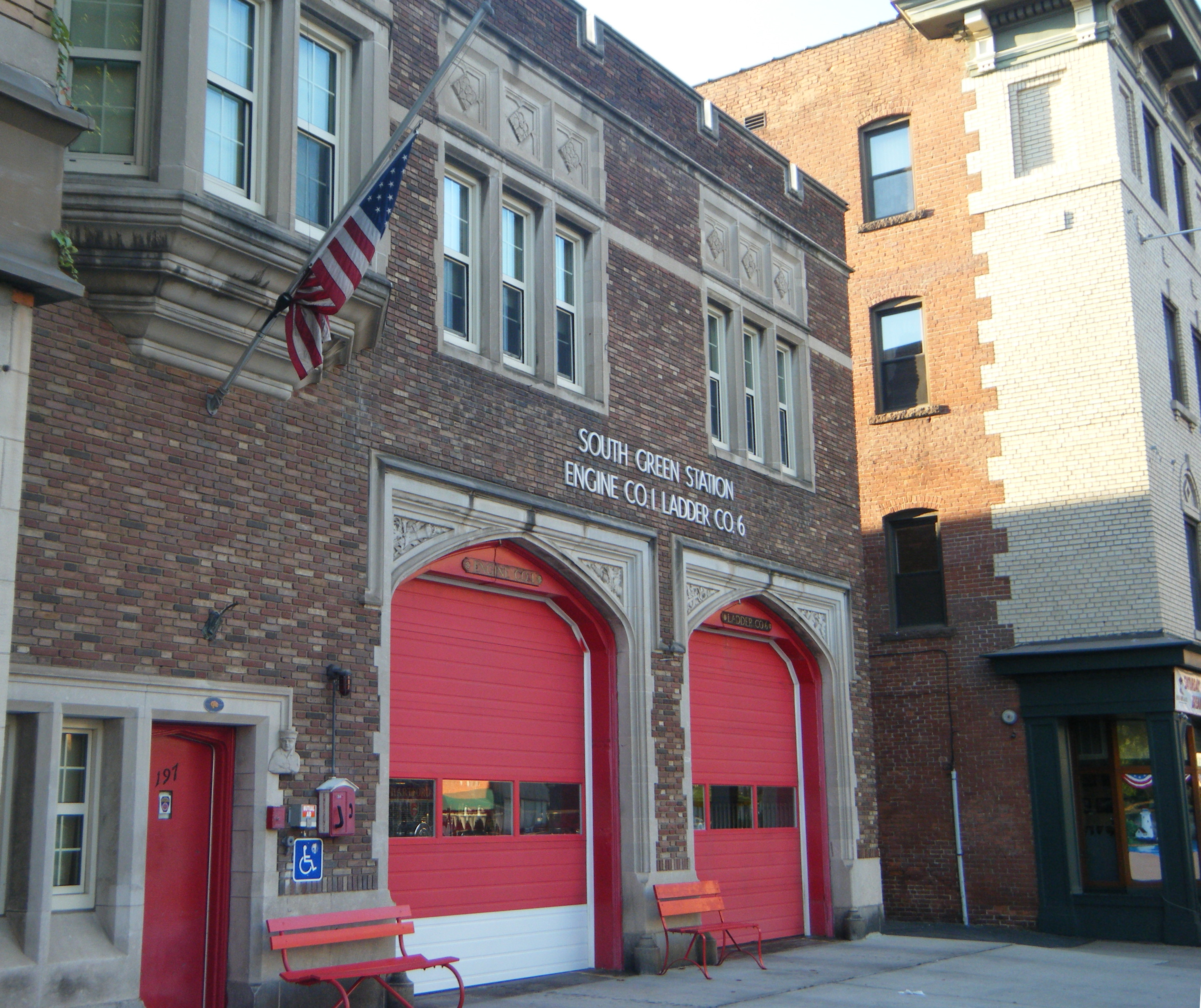 Engine Company 1 Fire Station in Hartford, CT.